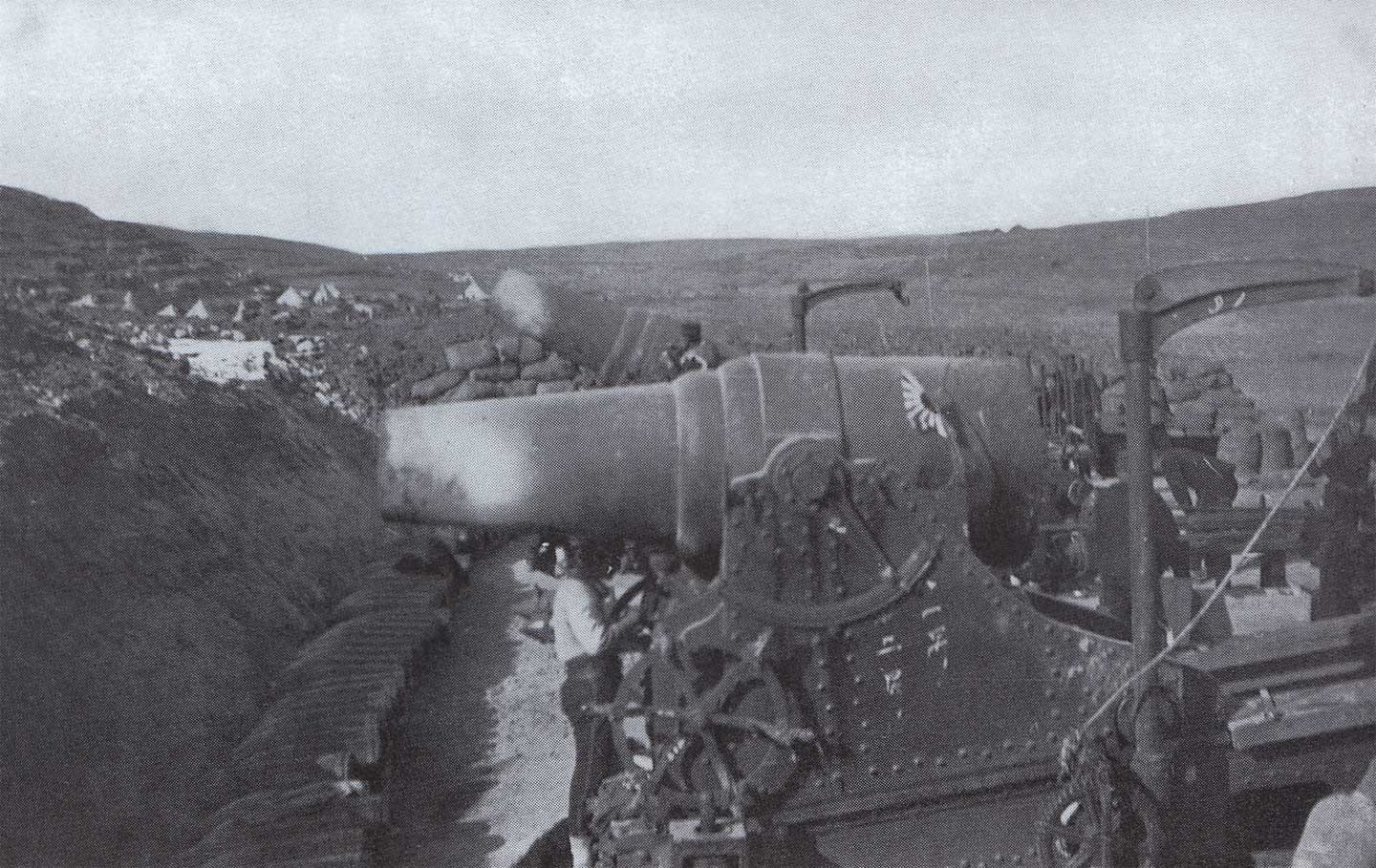 Japanese 28 cm Howitzer during the Siege of Port Arthur.